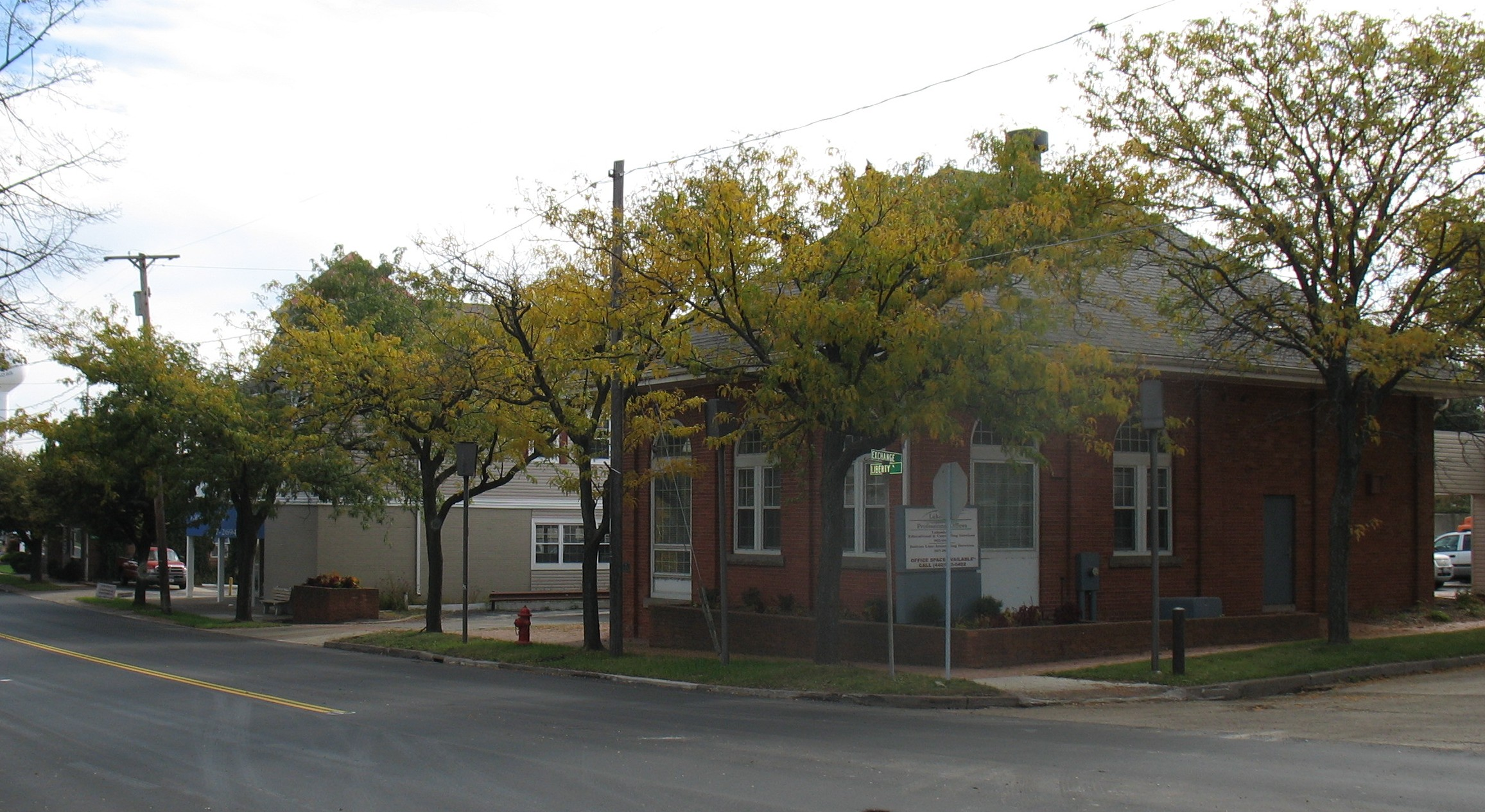 Lake Shore Electric Railway station in Vermilion, Ohio as it appeared in October, 2008; converted to professional offices.